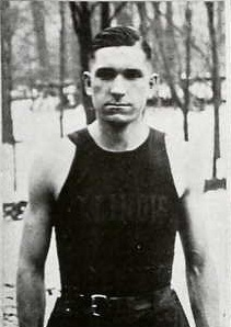 Photograph of Allan Williford, Indiana University basketball coach